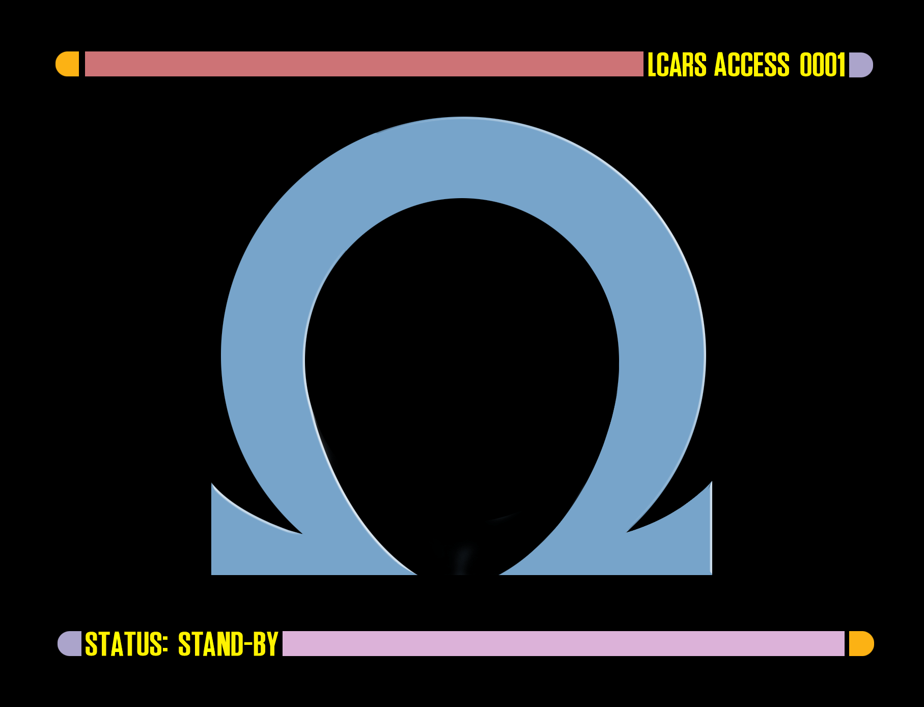 "The Omega symbol" which appears on Starfleet monitors when sensors detect the Omega particle. This image is considered to be PD-ineligible, as it is composed entirely of text and geometric shapes.